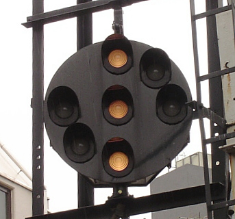 Repeating signal installed at Yoyogihachiman station of Odakyu Electric Railway